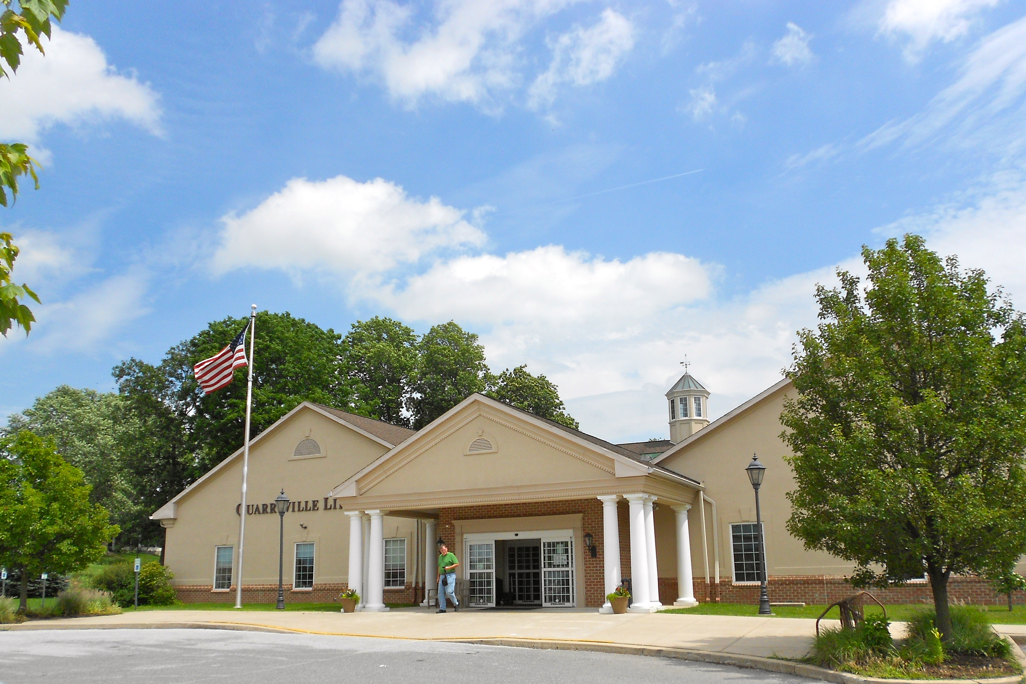 Quarryville Library, Lancaster County, Pennsylvania. Surprisingly it is just outside Quarryville in East Drumore Township not far from Providence Township, and a bit further to Colerain and Eden Townships, all in Lancaster County